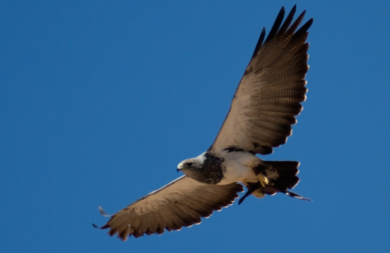 A Black-chested Buzzard-Eagle flying at a falconry display at Palmitos Park, Gran Canaria, Canary Islands, Spain.